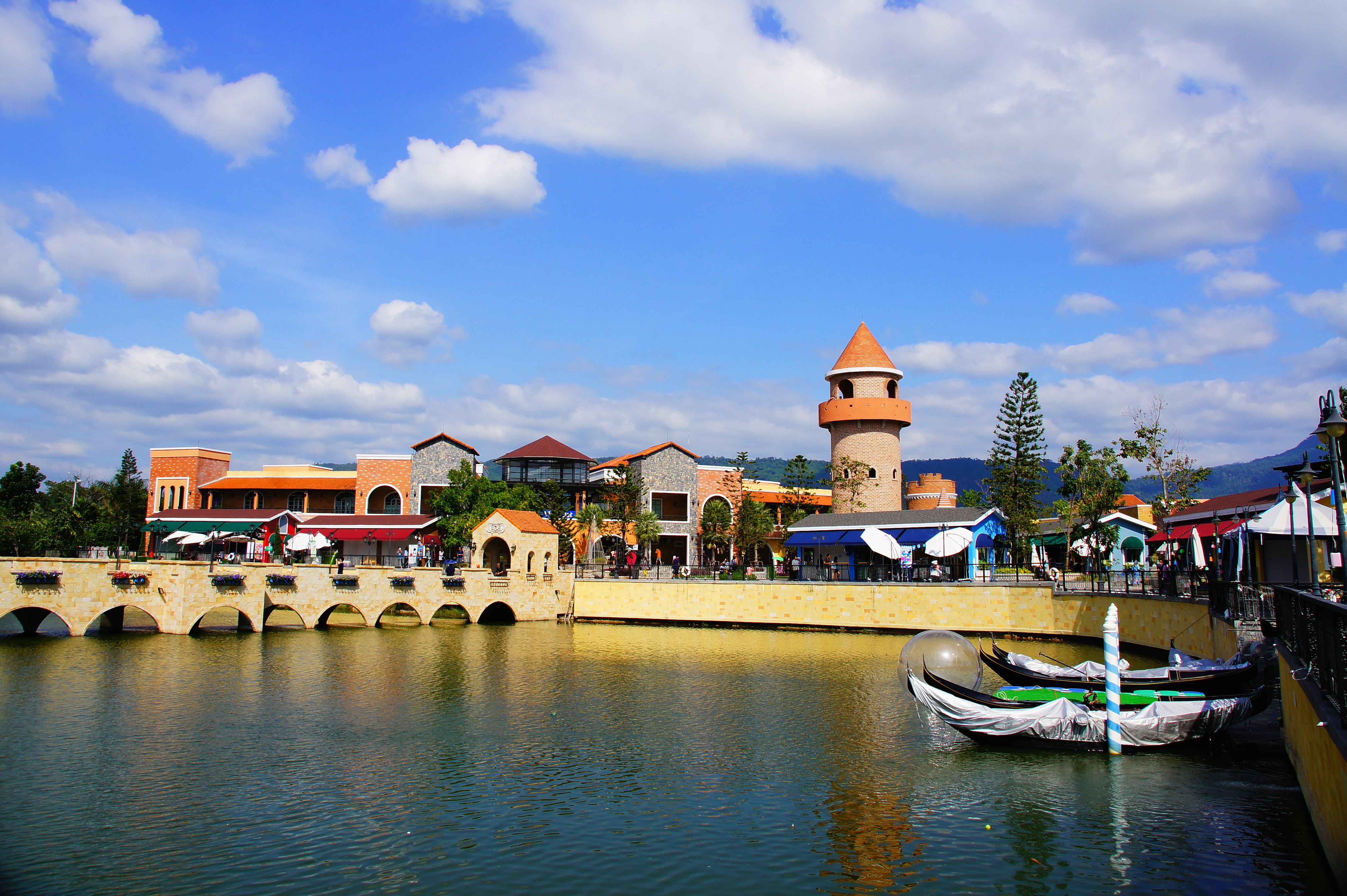 The Verona